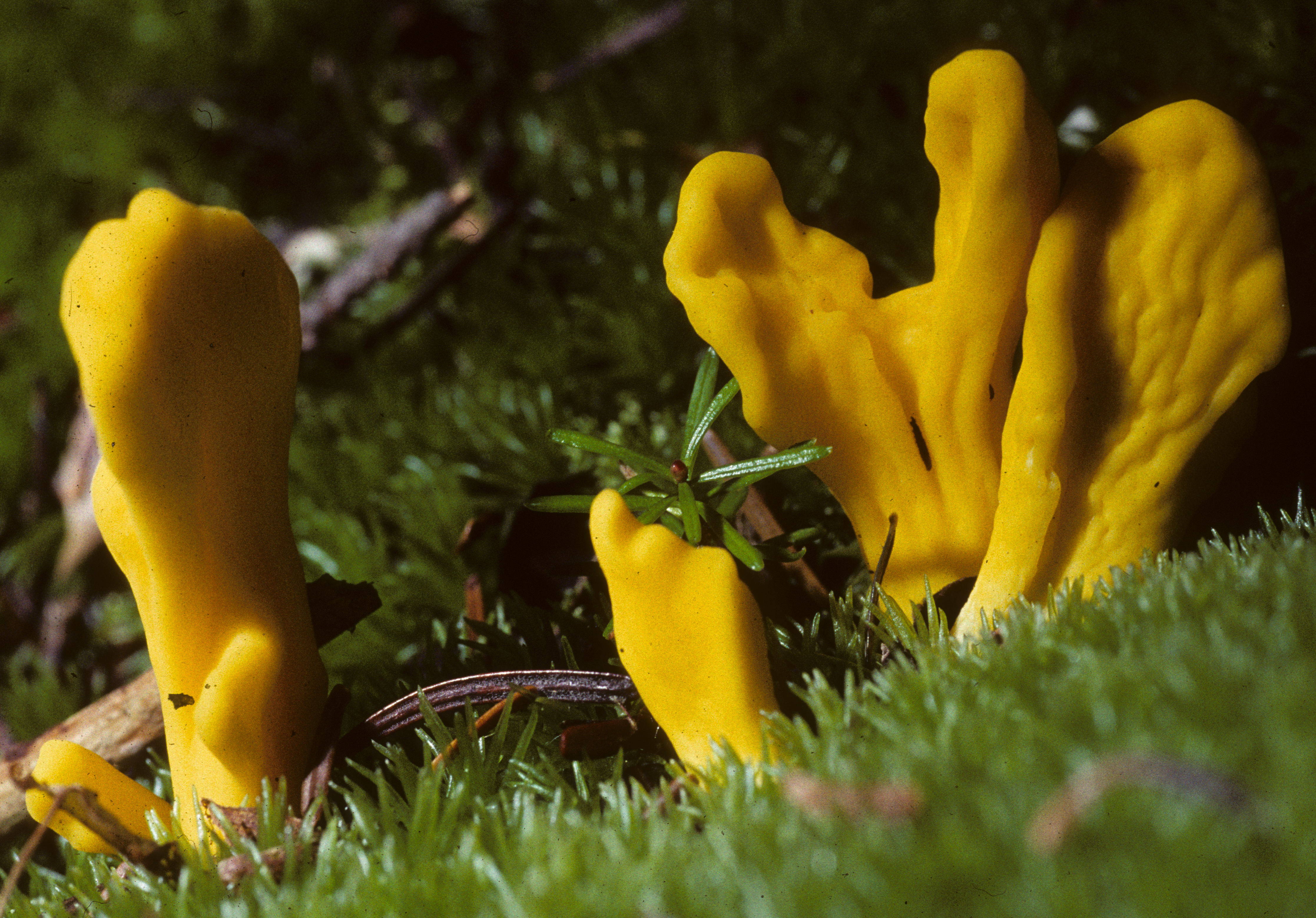 Fruit bodies of the fungus Neolecta irregularis (Peck) Korf & J.K. Rogers. Specimens photographed in Deer Lake Trail, Adirondacks, New York, USA.